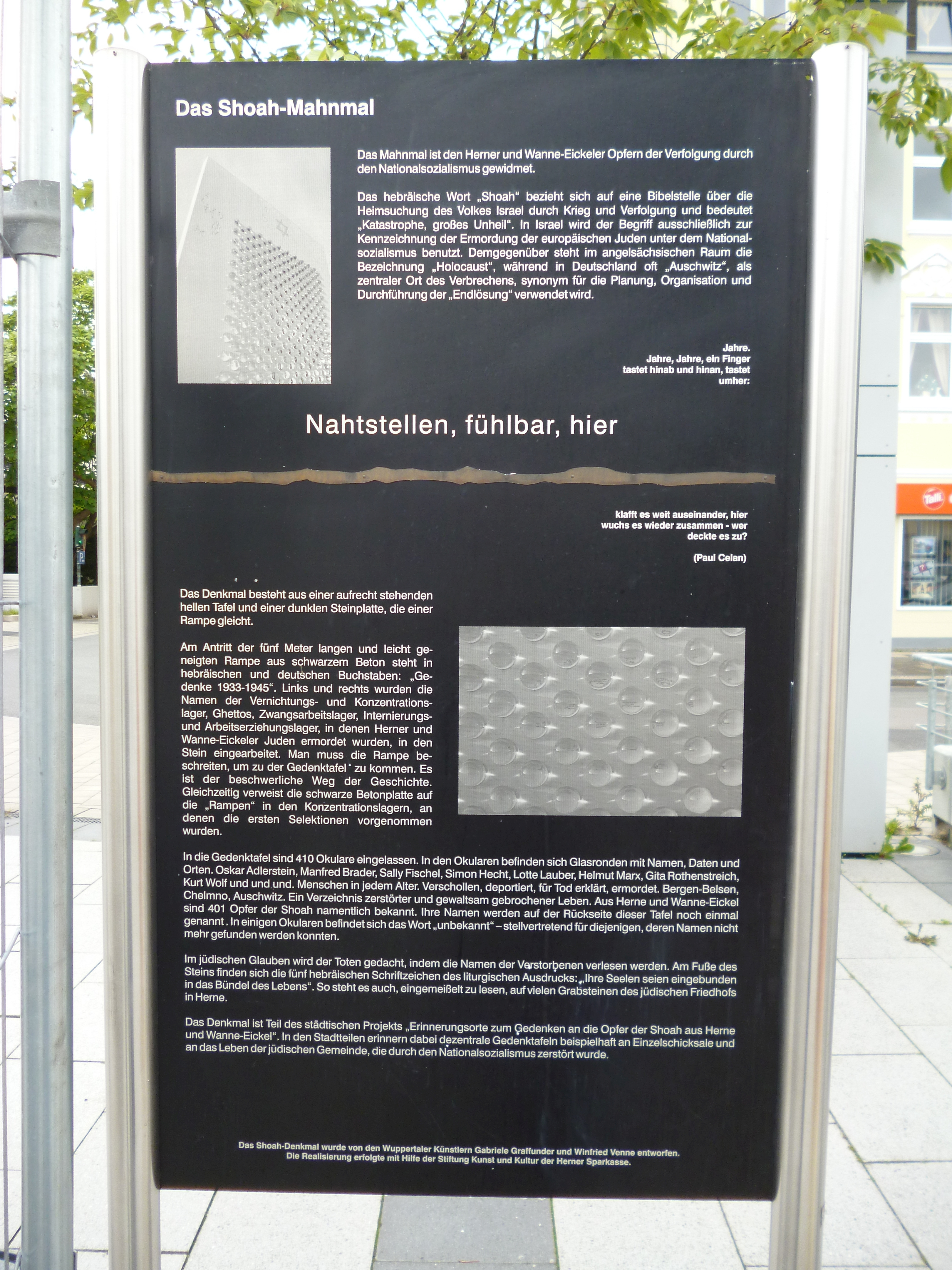 Shoah Memorial, Willi-Pohlmann-Platz, Herne